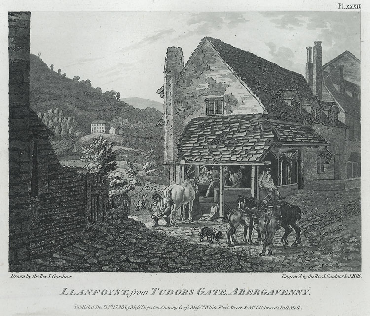 Street scene, with a blacksmith shoeing a horse. Llanfoist is visable in the distance.